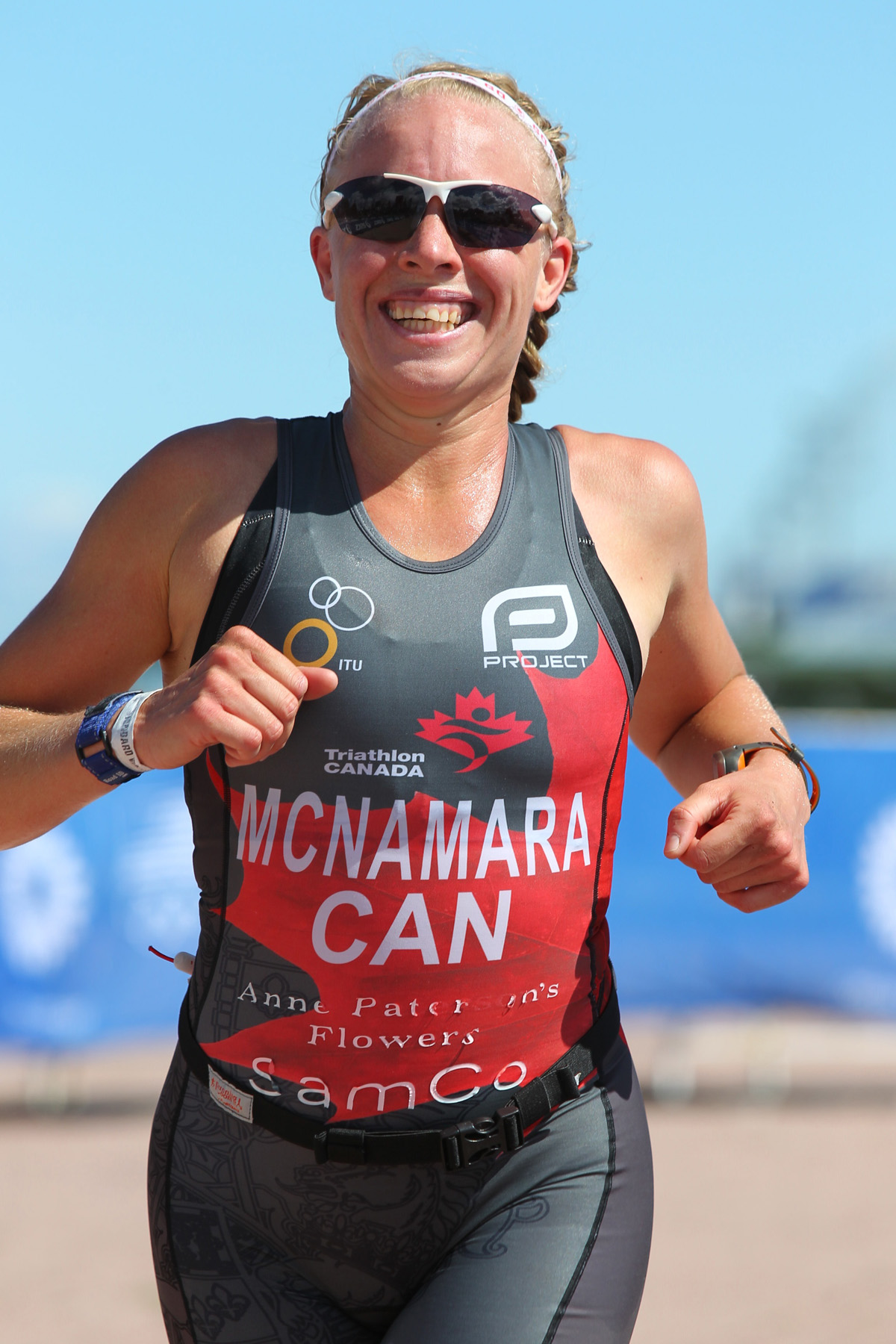 International Triathlon World Championships 2015 Chicago Illinois Karmen McNamara